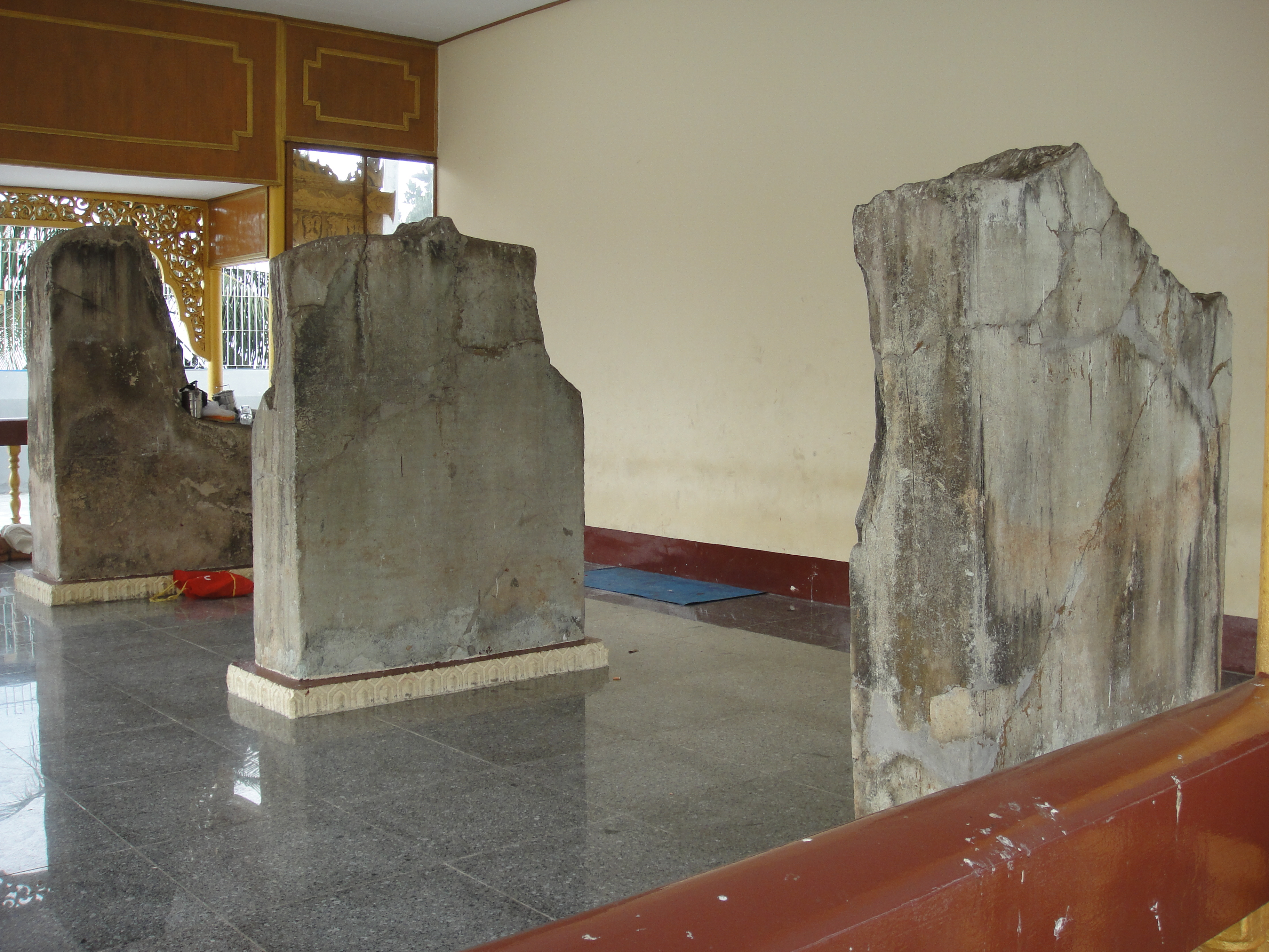 Stone inscription of King Dhamazeti in Mon, Pali etc.